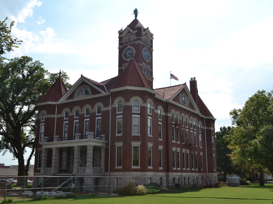 The Harper County Courthouse in Anthony, Kansas on 17 August 2015